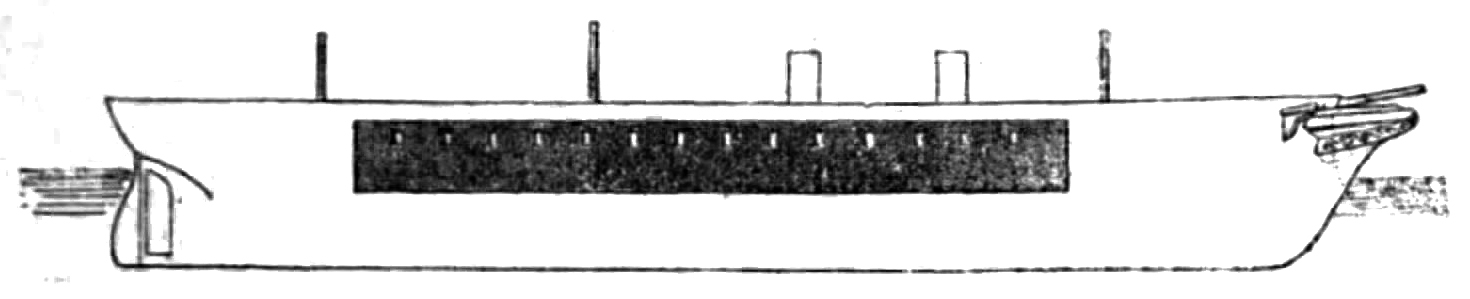 The Warrior Illustration from Eardley-Wilmot: The Development of Navies